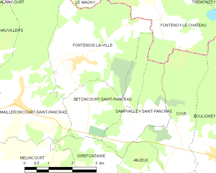 Map of French municipality